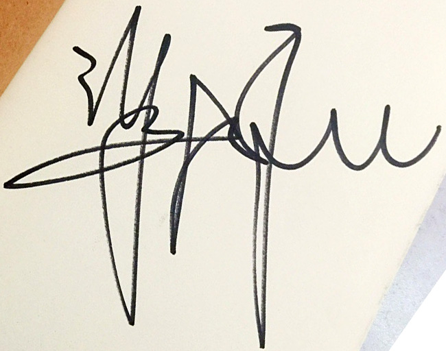 This is Tse Kwan Ho's signature.